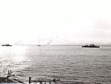 Australian heavy cruisers HMAS Shropshire (left) and HMAS Australia (right) bombarding Morotai